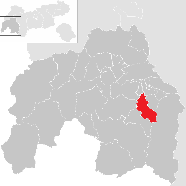 District Landeck